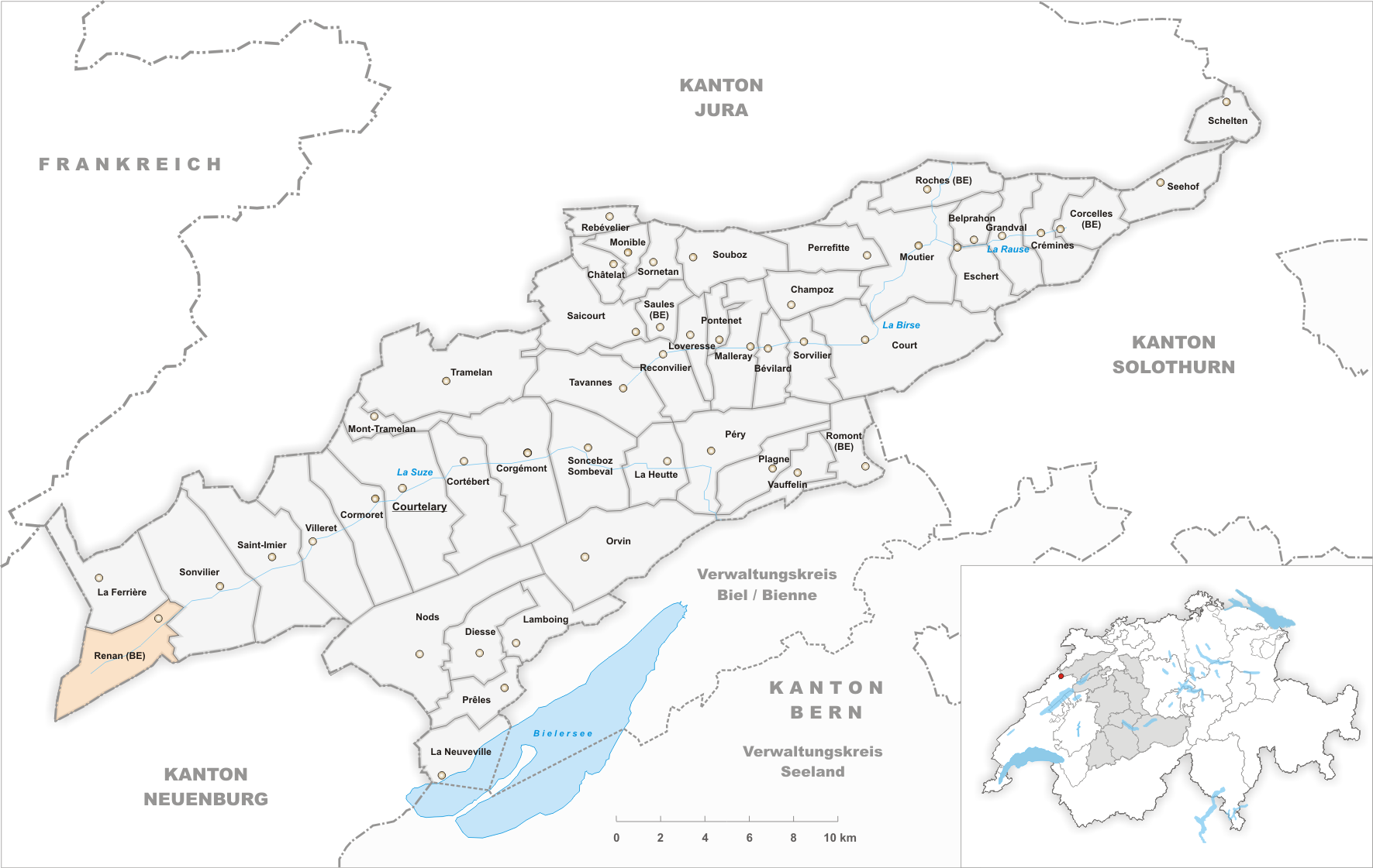 Municipality Renan